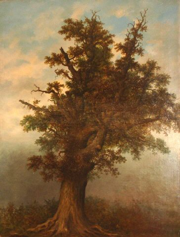 Oil painting of 'The Old Selly-Oak Tree' by W. Stone (dated 1897). The painting was made for the brewer William Butler (later Mitchell & Butlers Ltd), and once hung in the old Oak Inn in Selly Oak